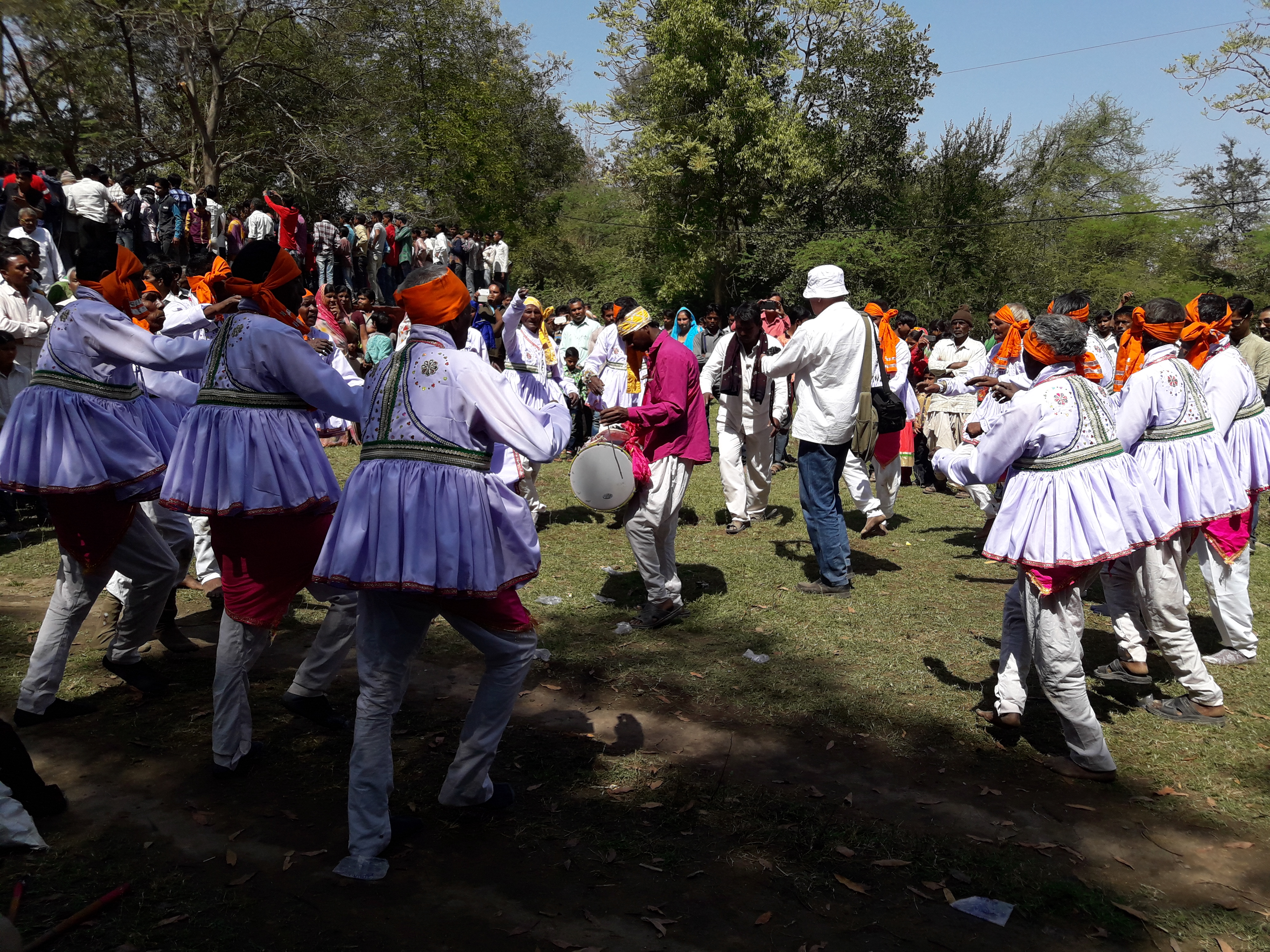 Kaleshwari Art Fair, held anuualy on Mahashivratri at Lunawada of Mahisagar district, Gujarat, India